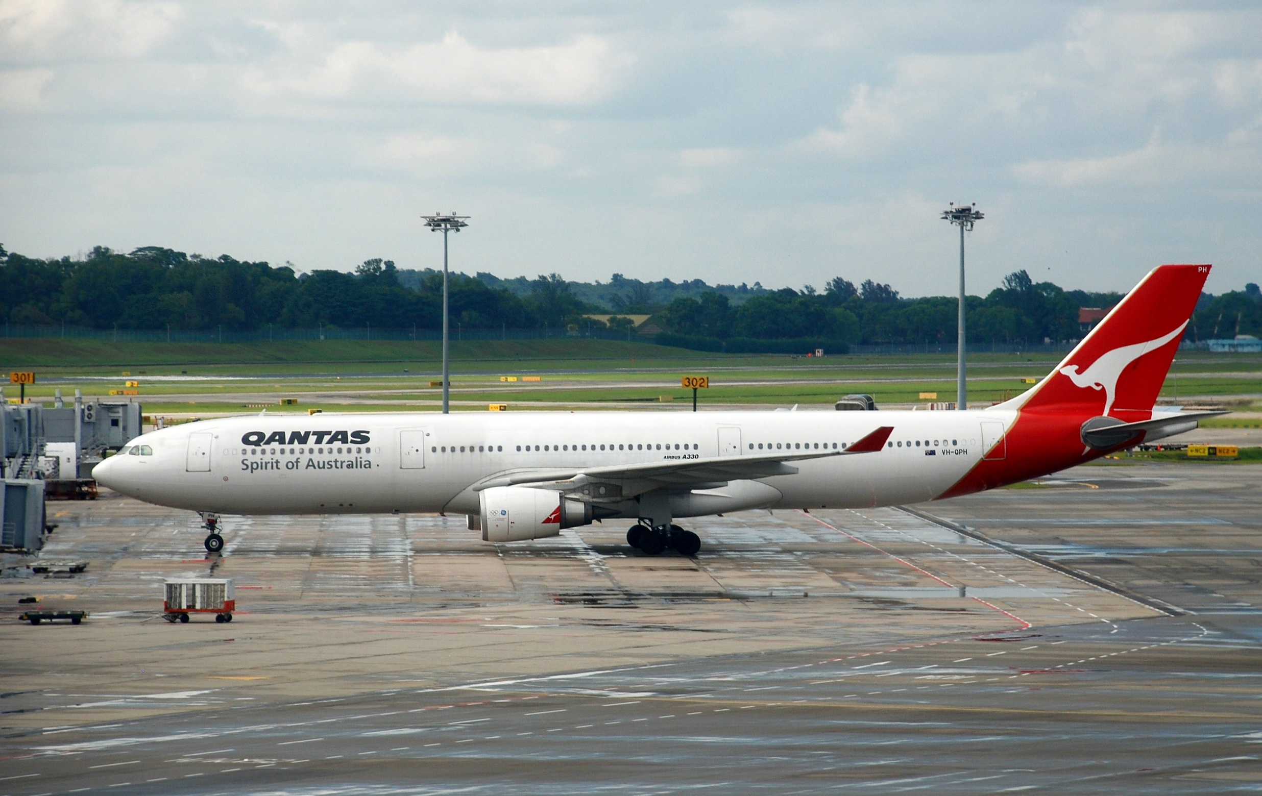 Qantas Airbus A330-300 taxiing (VH-QPH) at Singapore Changi Airport.